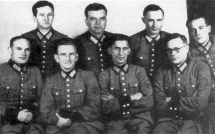 Ukrainian Nazi German Schutzmannschaft Battalion 201 with Roman Shukhevych (sitting, second from left), 1942.